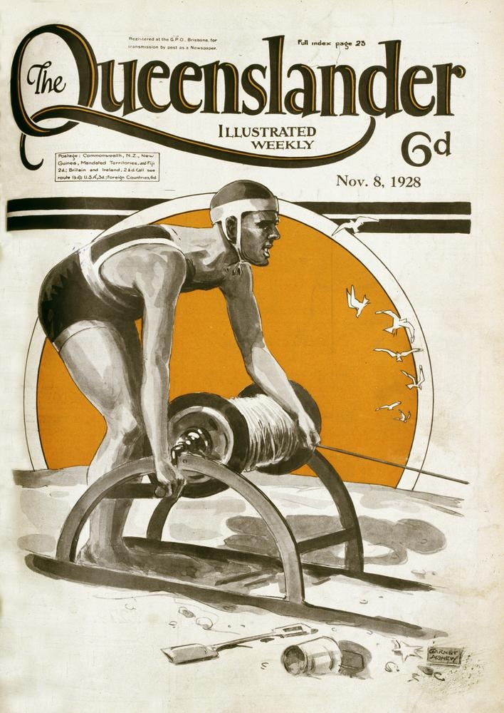 Photographer: Garnet Agnew Location: Queensland, Australia View this page at the State Library of Queensland Information about State Library of Queensland’s newspaper collection: Information about State Library of Queensland’s photograph collection